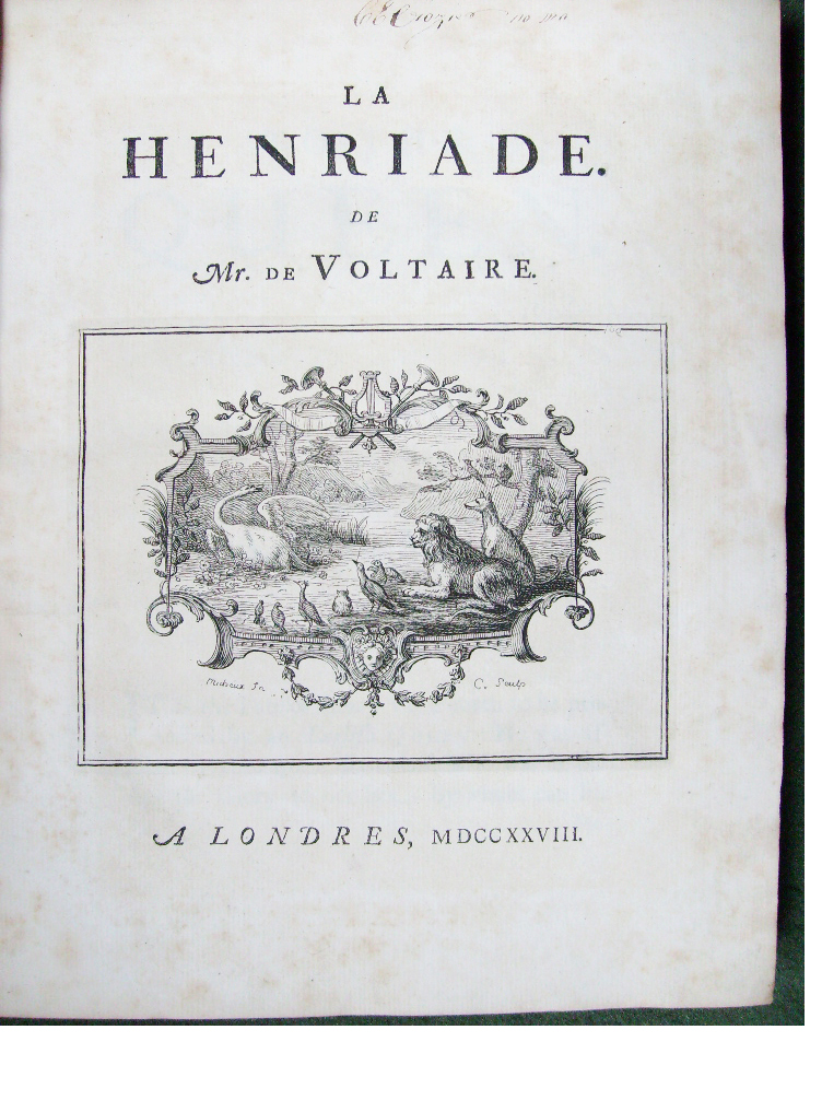 Voltaire - La Henriade - LONDRES - 1728